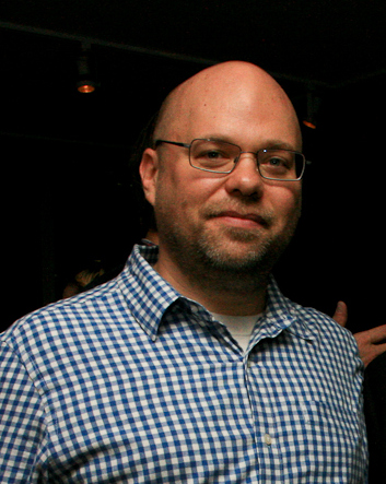 Adam Davidson (NPR) at Edward Luce book party. Photo credit: Grace Villamil